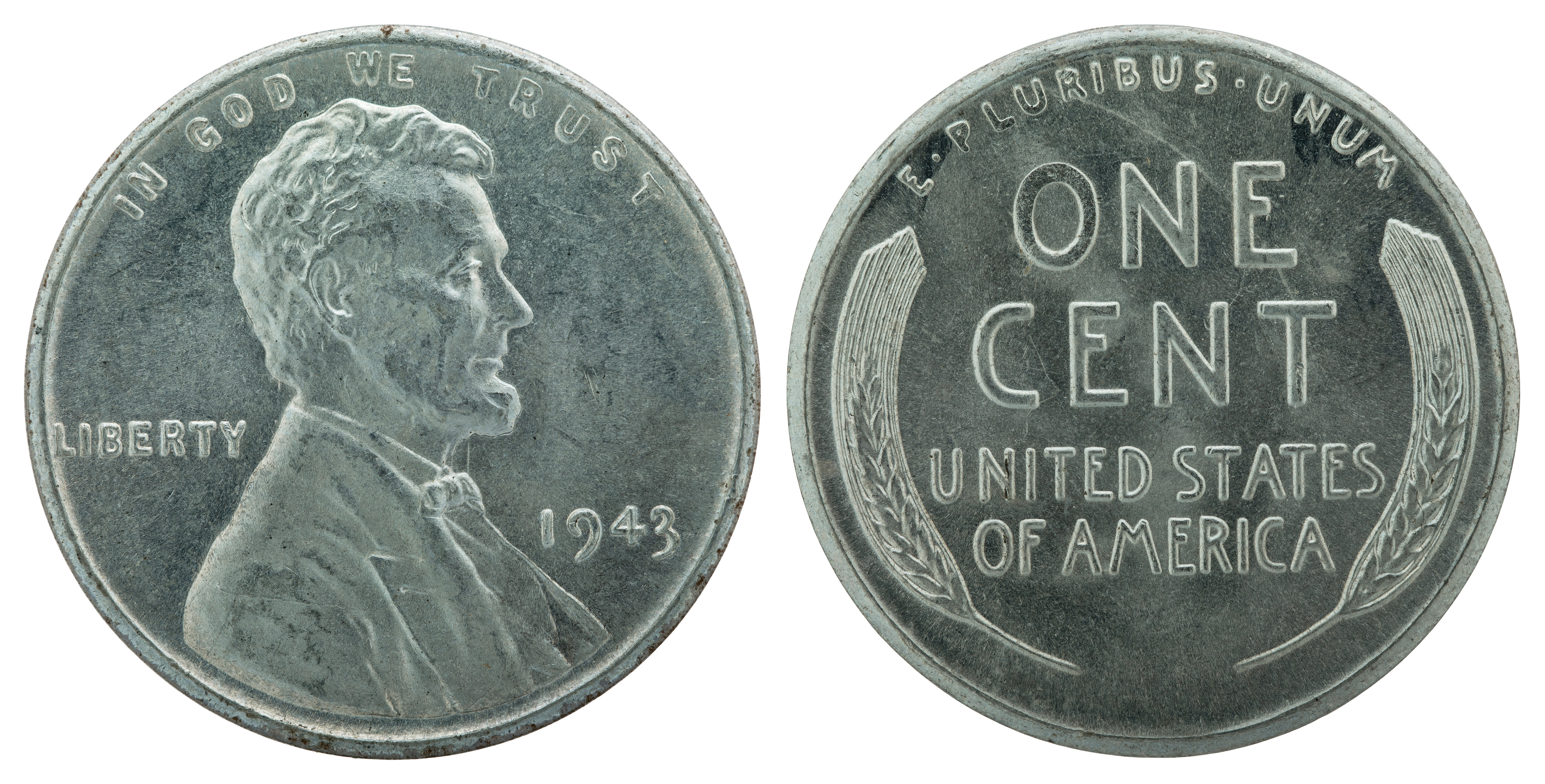 1943-1C-Lincoln Cent (wheat, zinc-coated steel)JN2015-6846-47